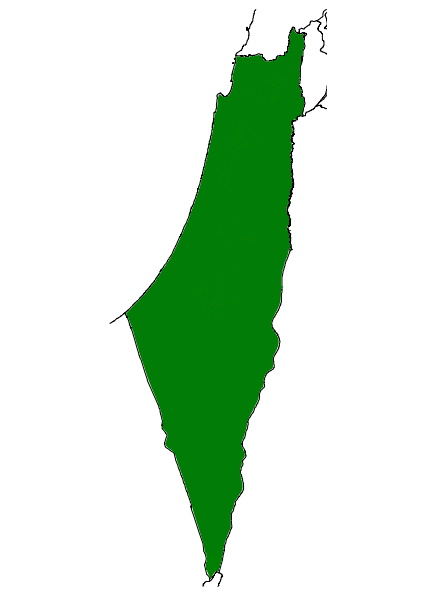 Western part of historical Palestine